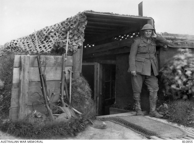 Brigadier General H. E. 'Pompey' Elliott, General Officer Commanding (GOC), 15th Australian Infantry Brigade, standing at the door of a captured German Divisional Headquarters near Harbonnieres.